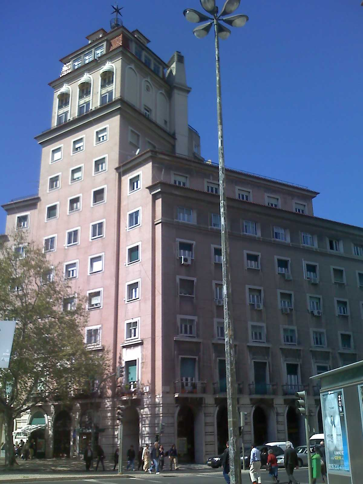 Areeiro square tower in Lisbon